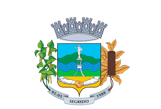 Flags of the city of Segredo, Rio Grande do Sul, Brazil.